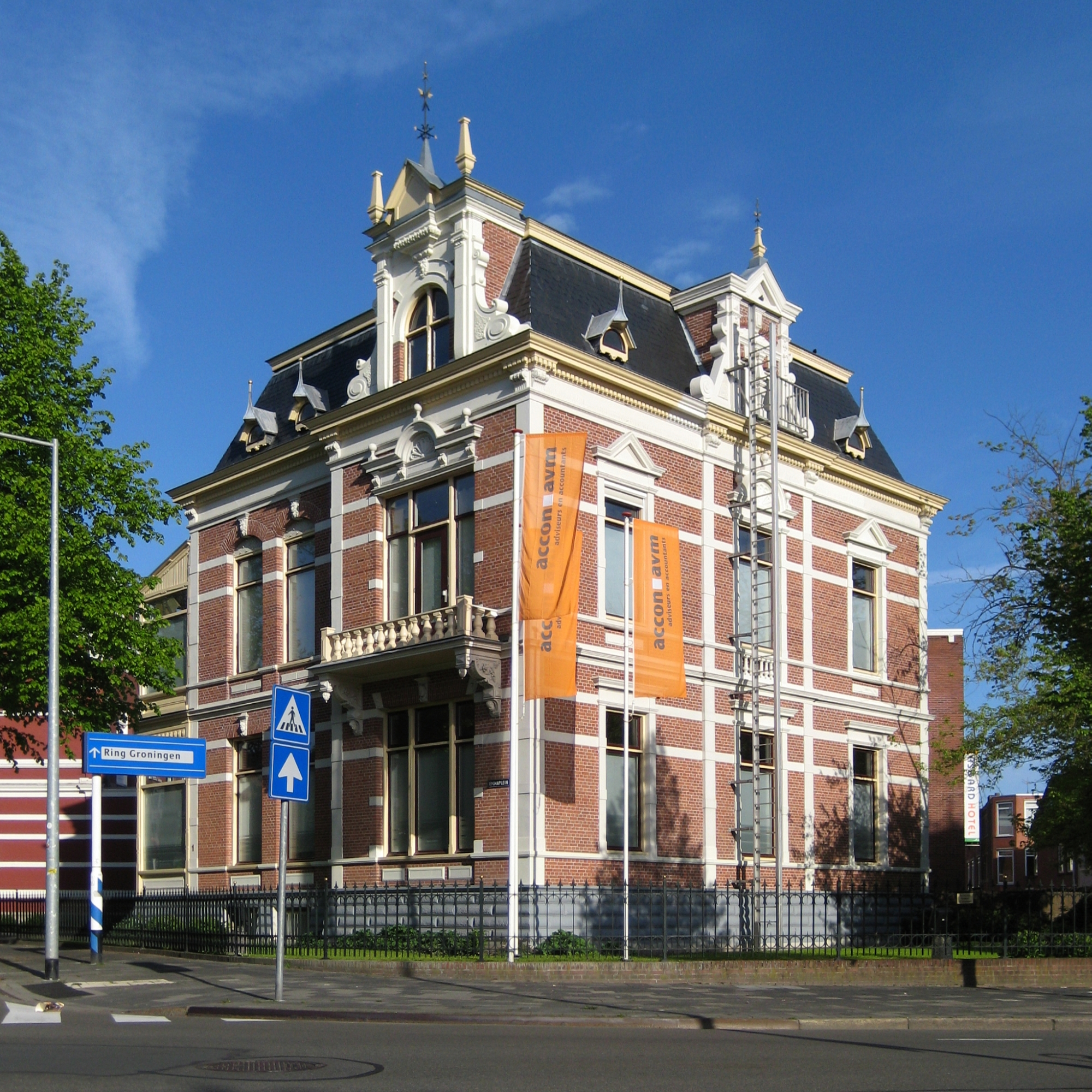 Villa (1892) in the Dutch city of Groningen.